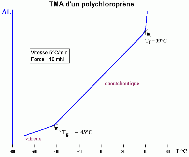 Variation of expansion with temperature on chloroprene rubber (CR) in thermomechanical analysis (TMA). Measurement of the glass transition temperature, Tg.